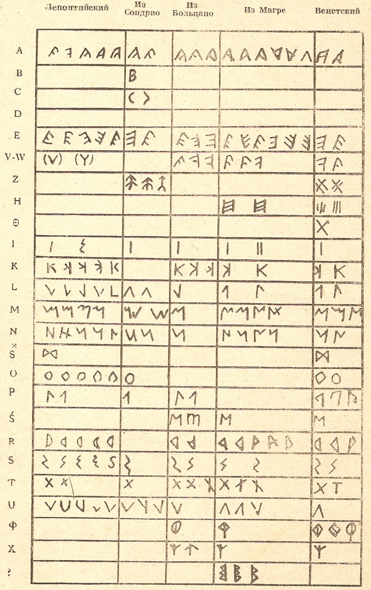 North-Etruscan alphabets: 1. Lugano inscriptions (Lepontic alphabet) – 2. Sondrio inscriptions (Camunic alphabet) – 3. Bolzano, and Bozen-Sanzeno inscriptions (Raetic alphabet, Northern variant) – 4. Magrè Vicentino, Verona, and Padua inscriptions (Raetic alphabet, Southern variant) – 5. Venice, and Este inscriptions (Venetic alphabet).